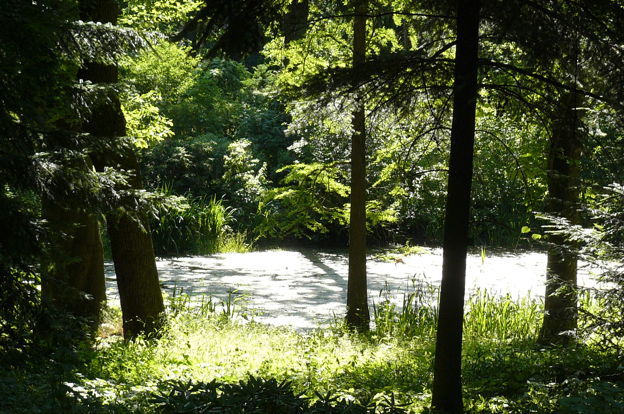 Dendrology Garden in Poznan. Center Pond.